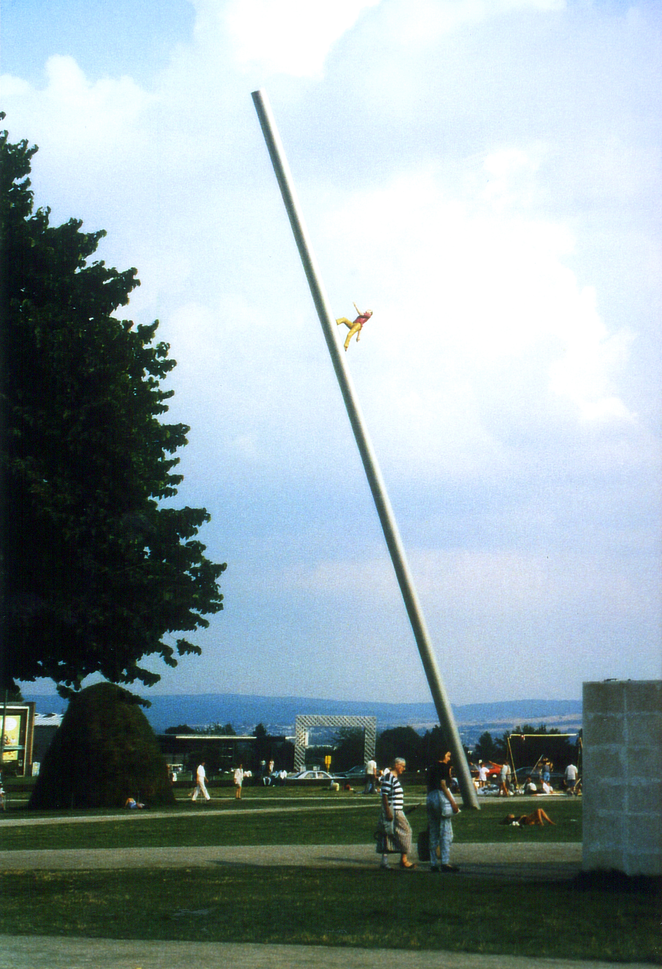 documenta IX man walking to the sky Jonathan Borowsky Friedrichsplatz 1992